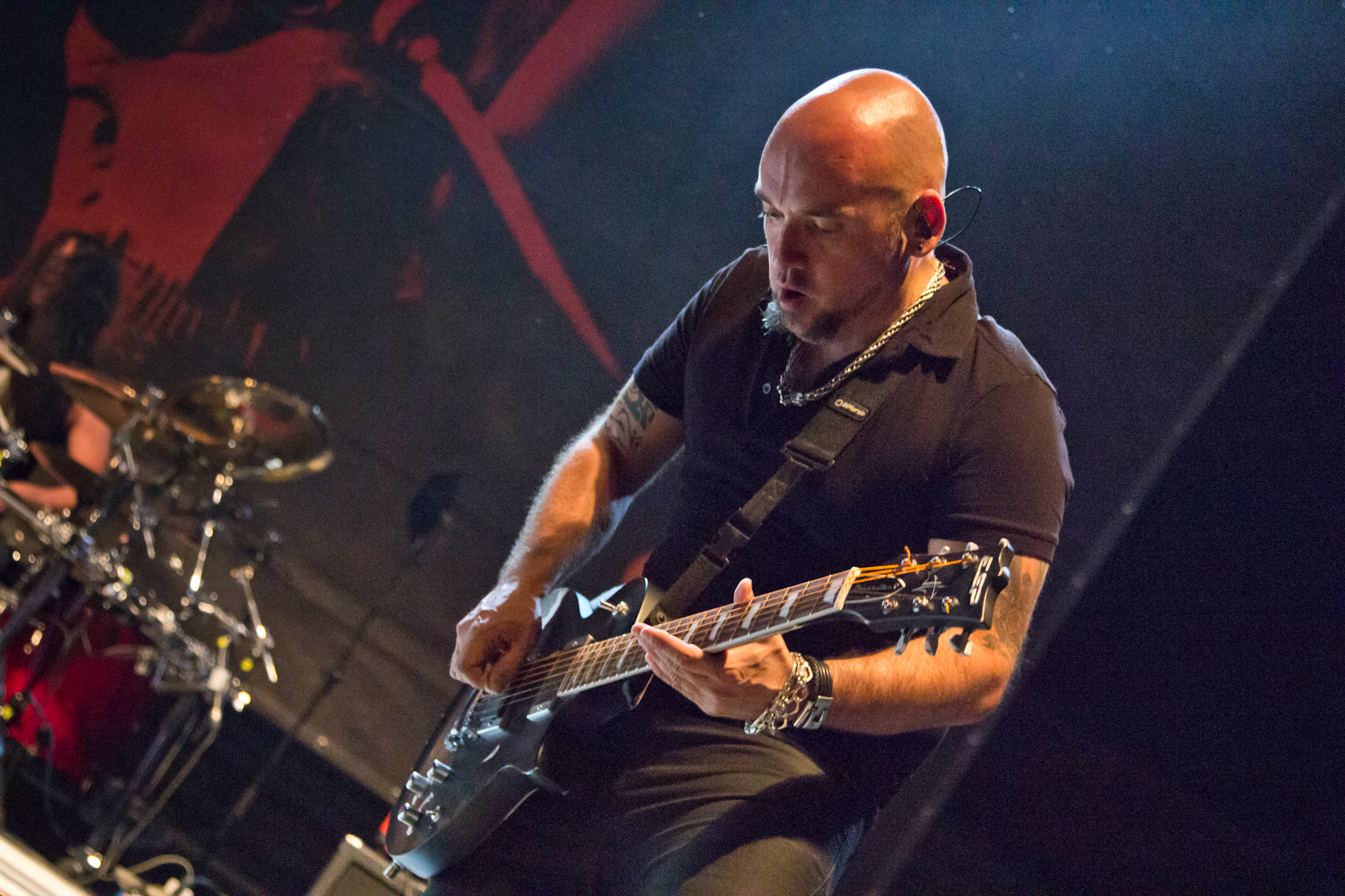 Spanish metal band Sôber at Asaco Metal Fest 2013, Parla, Spain.